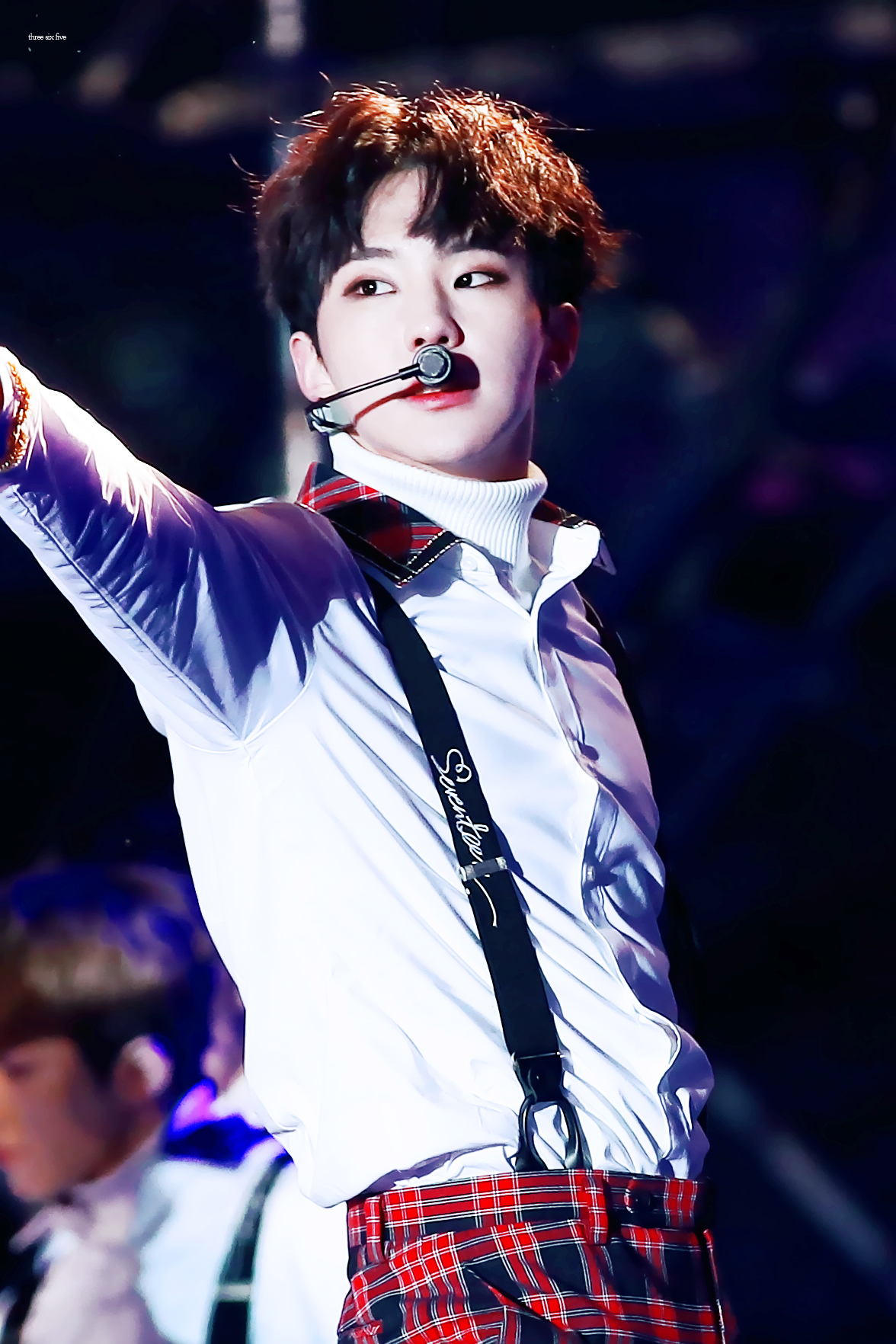 Hoshi performing at MBC Gayo Daejejeon on December 31, 2016조선말: 161231 MBC 가요대제전 영동대로